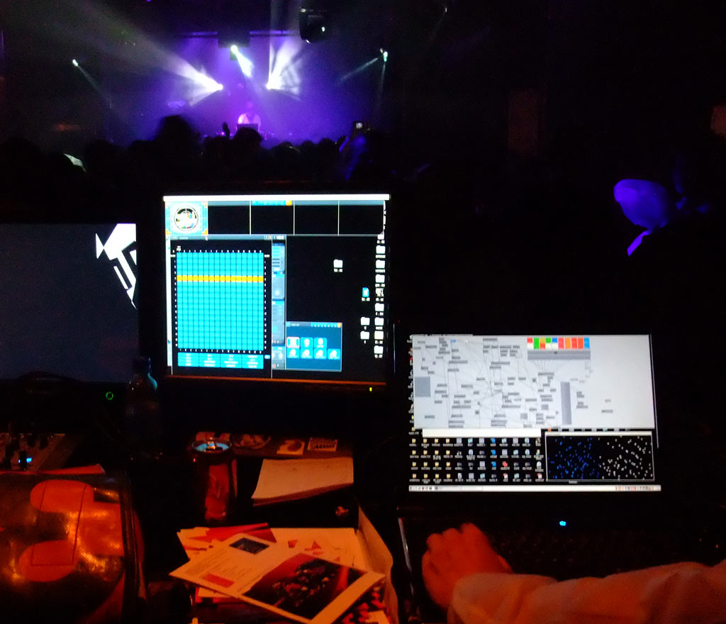 A VJ (live video performer) creating realtime visuals with the software PureData, at music club le Zoo (Geneva Switzerland) during Mapping Festival 2010.